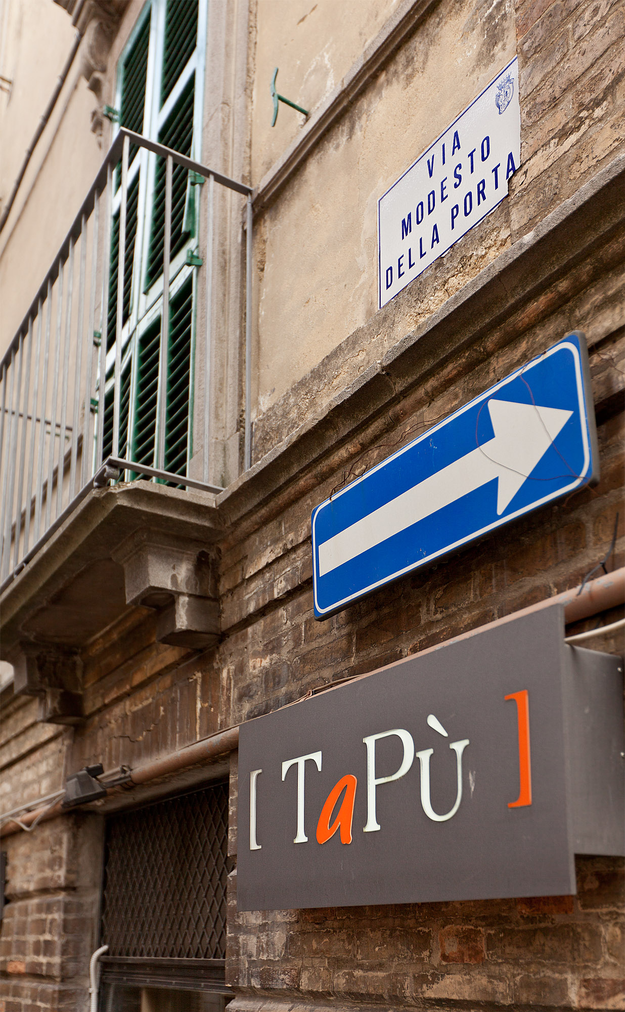 Sign of the TaPù Restaurant/wine bar (named after the most famous poem of the poet Della Porta) in Via Modesto Della Porta in Guardiagrele, IT